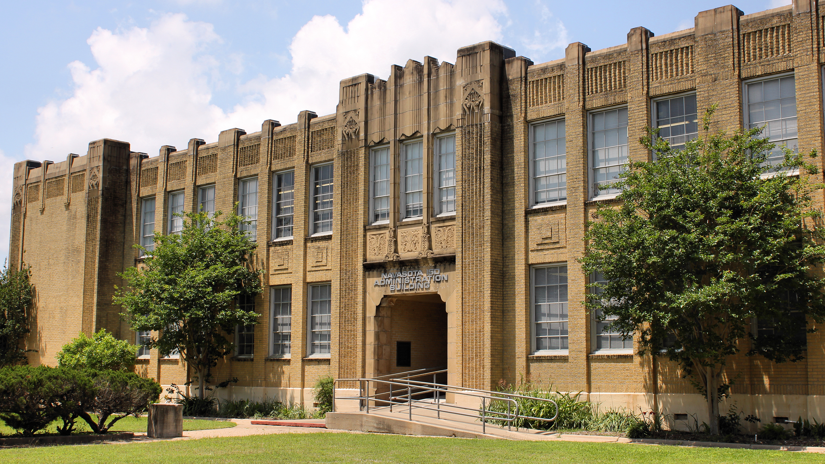 The Navasota Independent School District Administration Building was a former NISD school built in 1930.